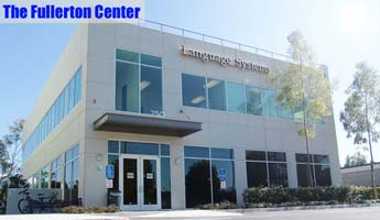 The Orange County Center of LSI